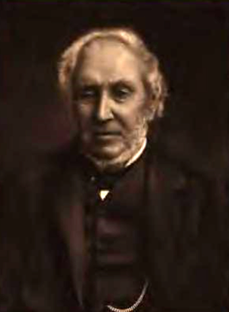 Lieutenant Colonel Basil Jackson circa 1880